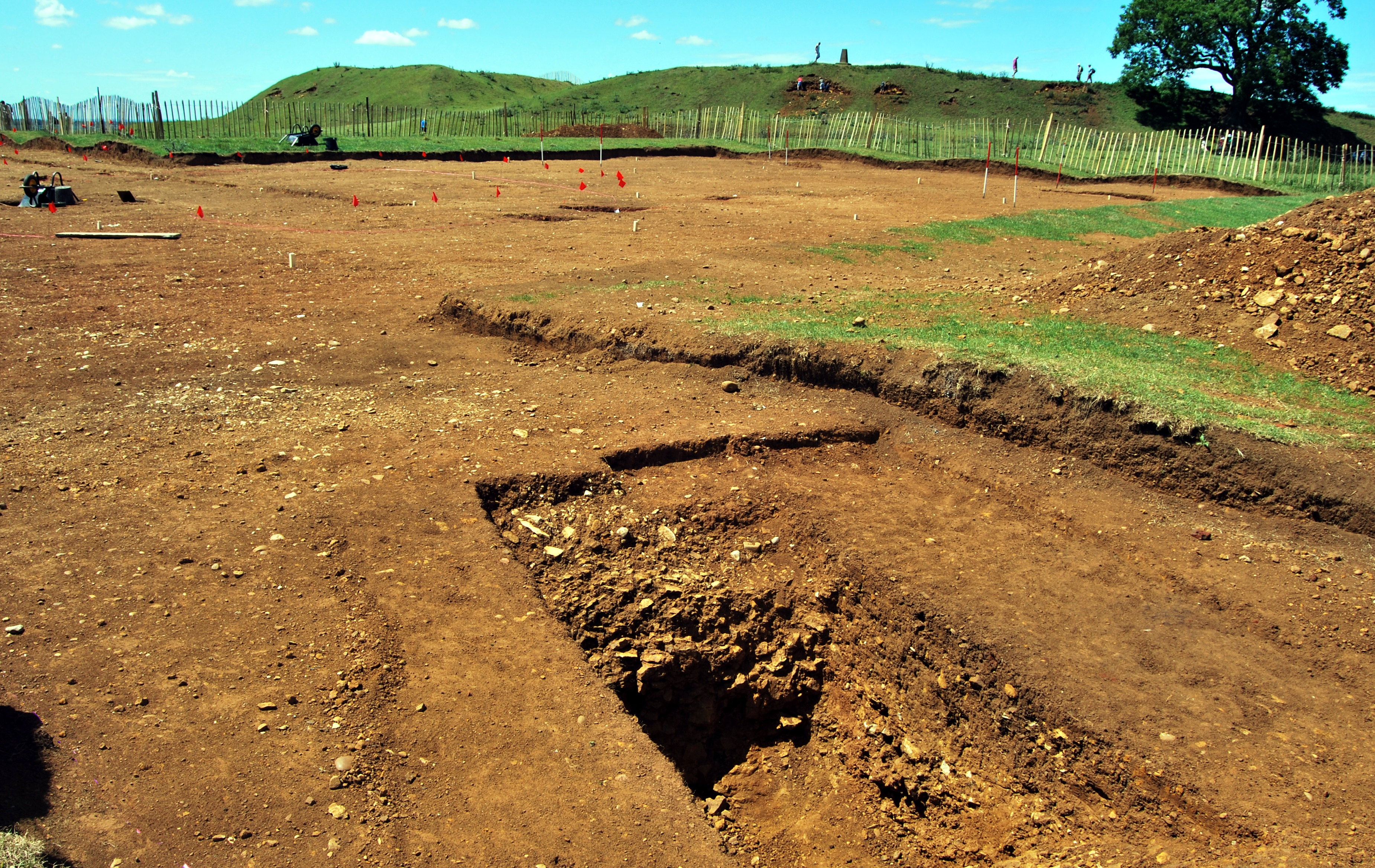 Atlas of Hillforts 1000 Picture showing part of the excavations at Burrough on the Hill June 2011. The trench in the photo was just outside the entrance to the hillfort, the earthworks of which can be seen in the background.